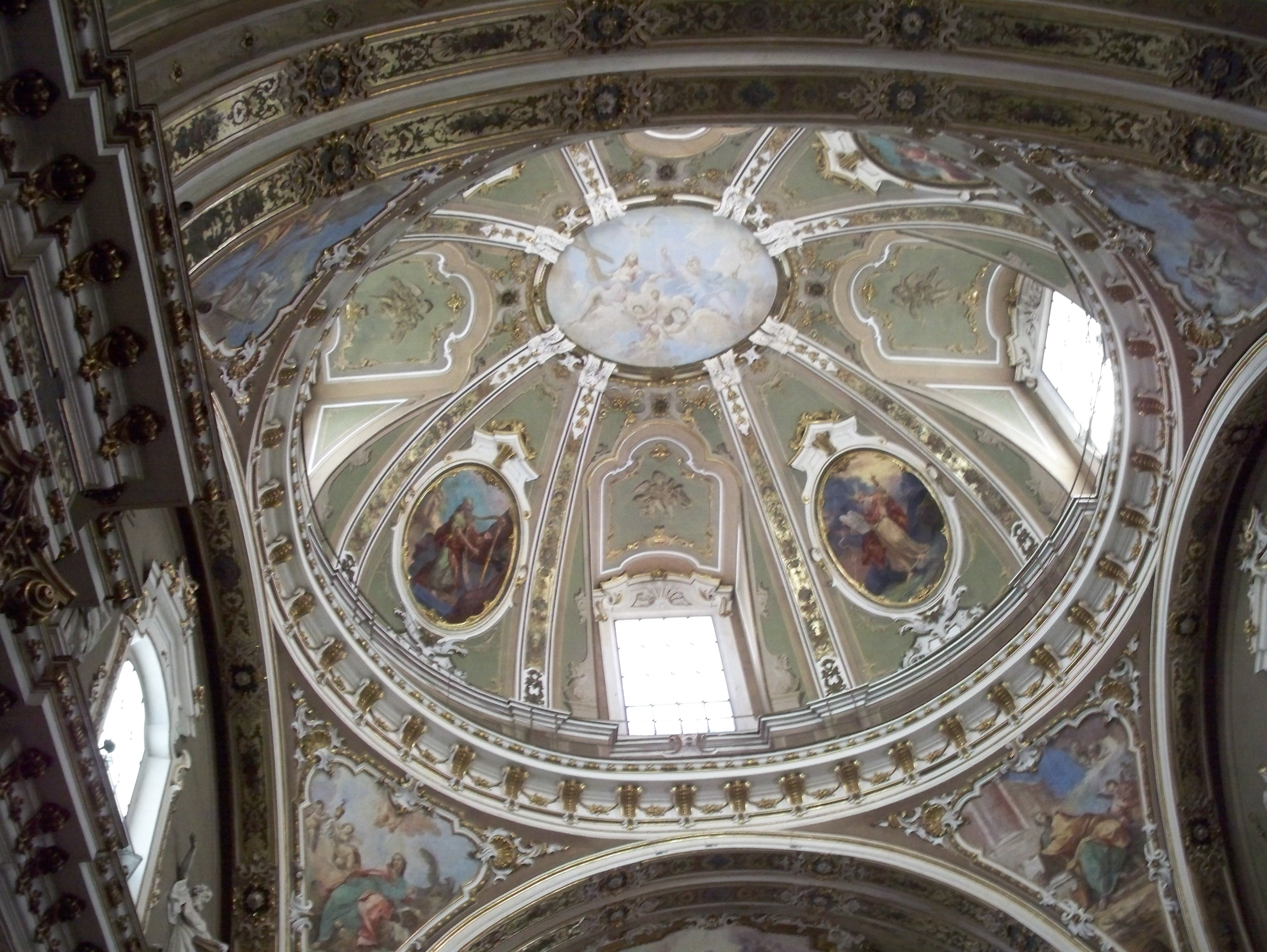 San Martino church, Sarnico, BG, Italia